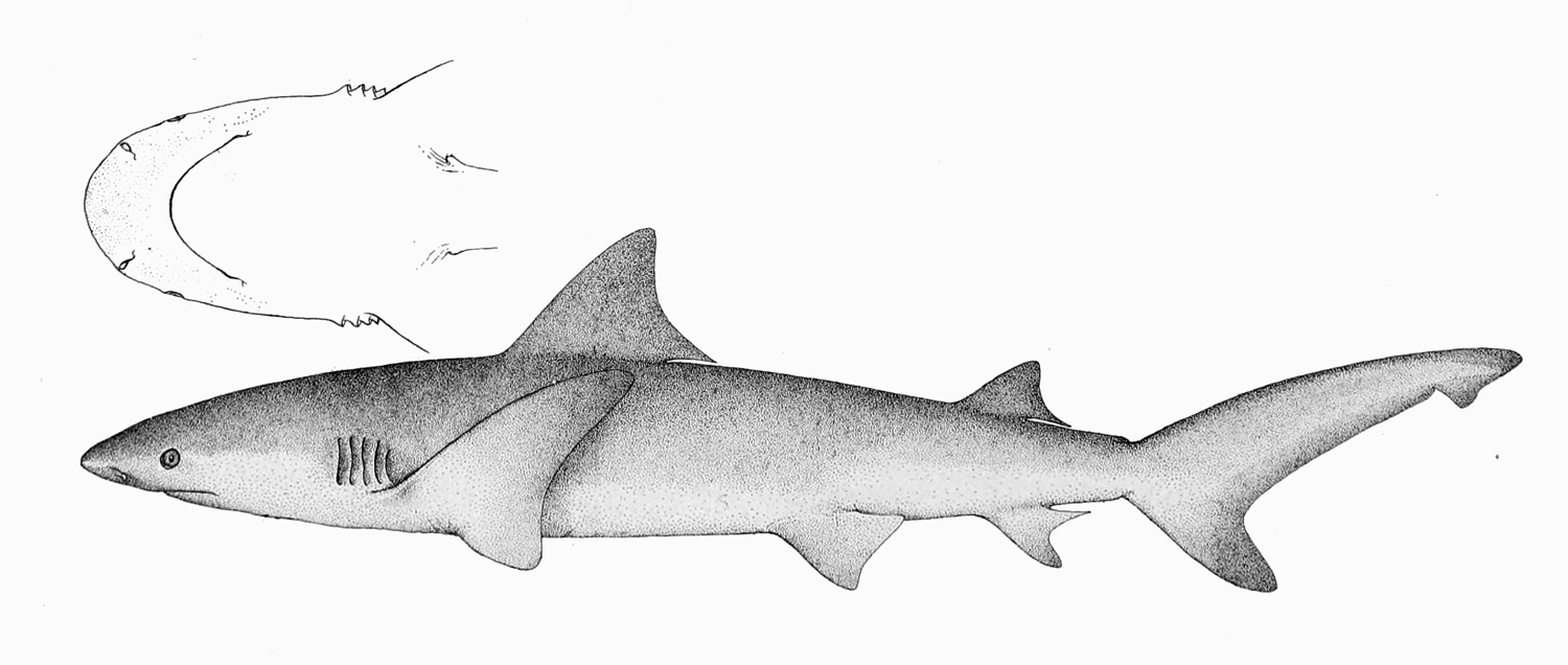 Carcharhinus leucas